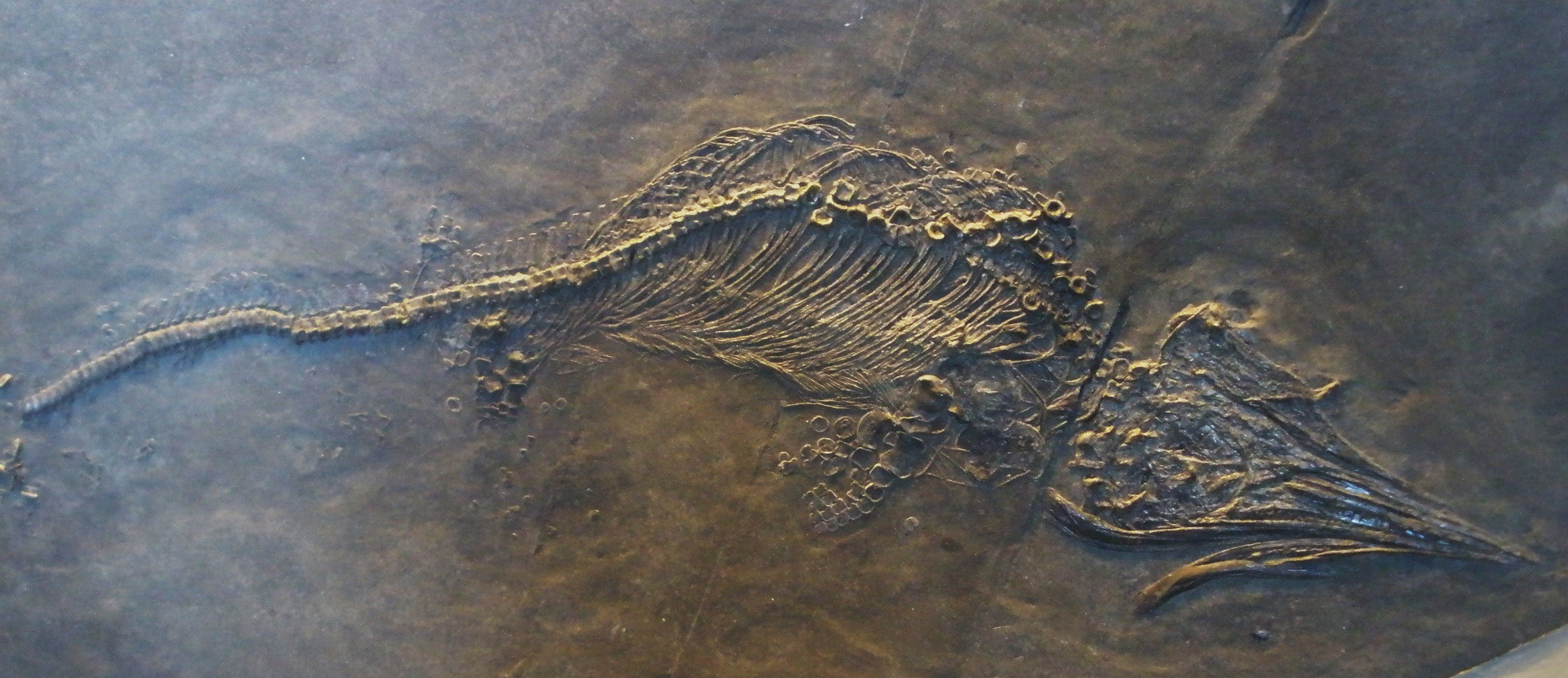 fossil mixosaurus